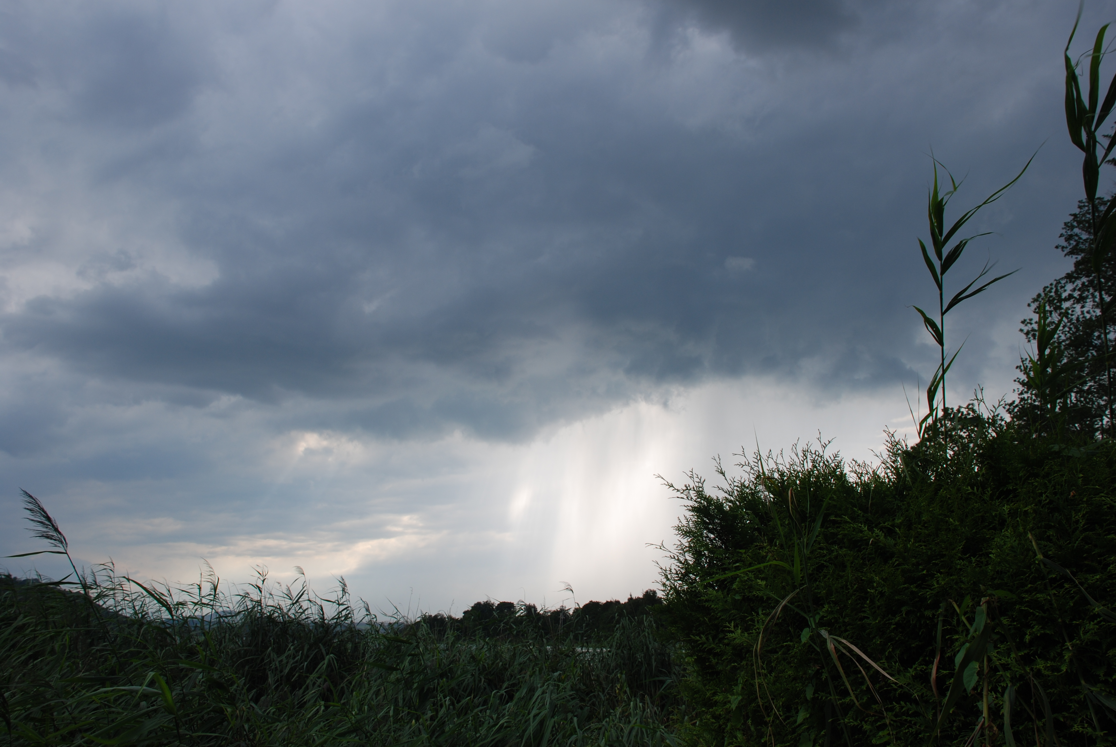 Storm over Wallersee